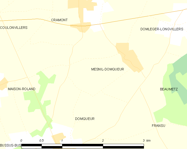 Map of French municipality Mesnil-Domqueur